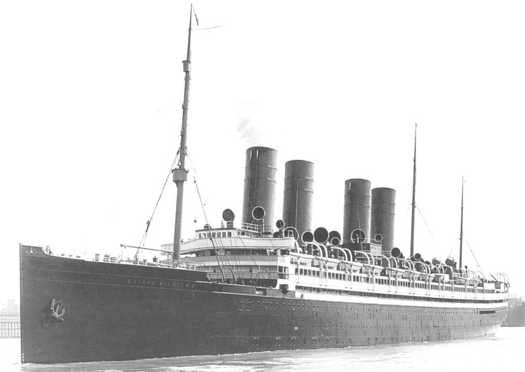 The North German Lloyd liner Kaiser Wilhelm II